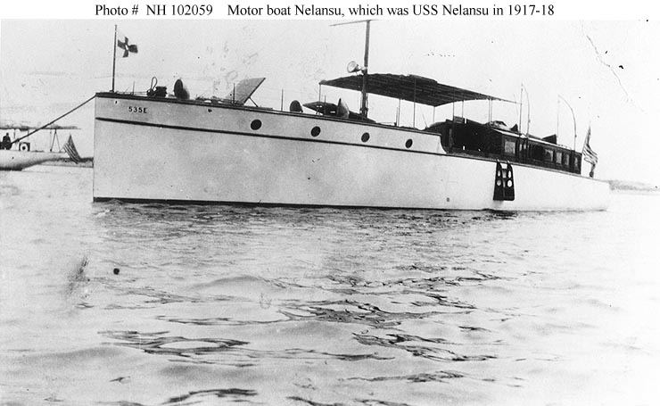 The motorboat Nelansu priot to her United States Navy service as the patrol vessel